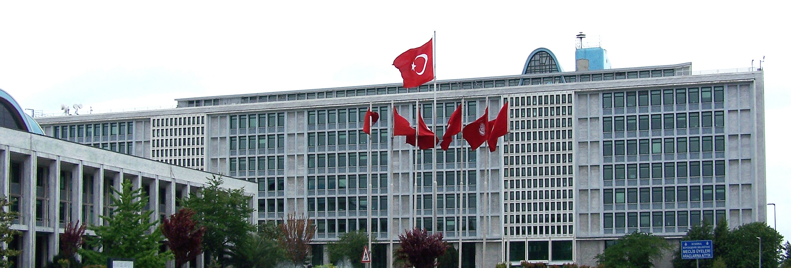 City Hall of the Istanbul Metropolitan Municipality in the Saraçhane neighbourhood.